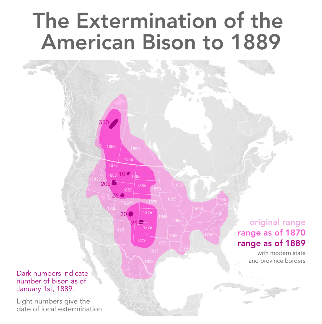 Extermination of the American Bison to 1889. Based on :Image:Bisons.JPG, which was based on William Temple Hornaday's book.